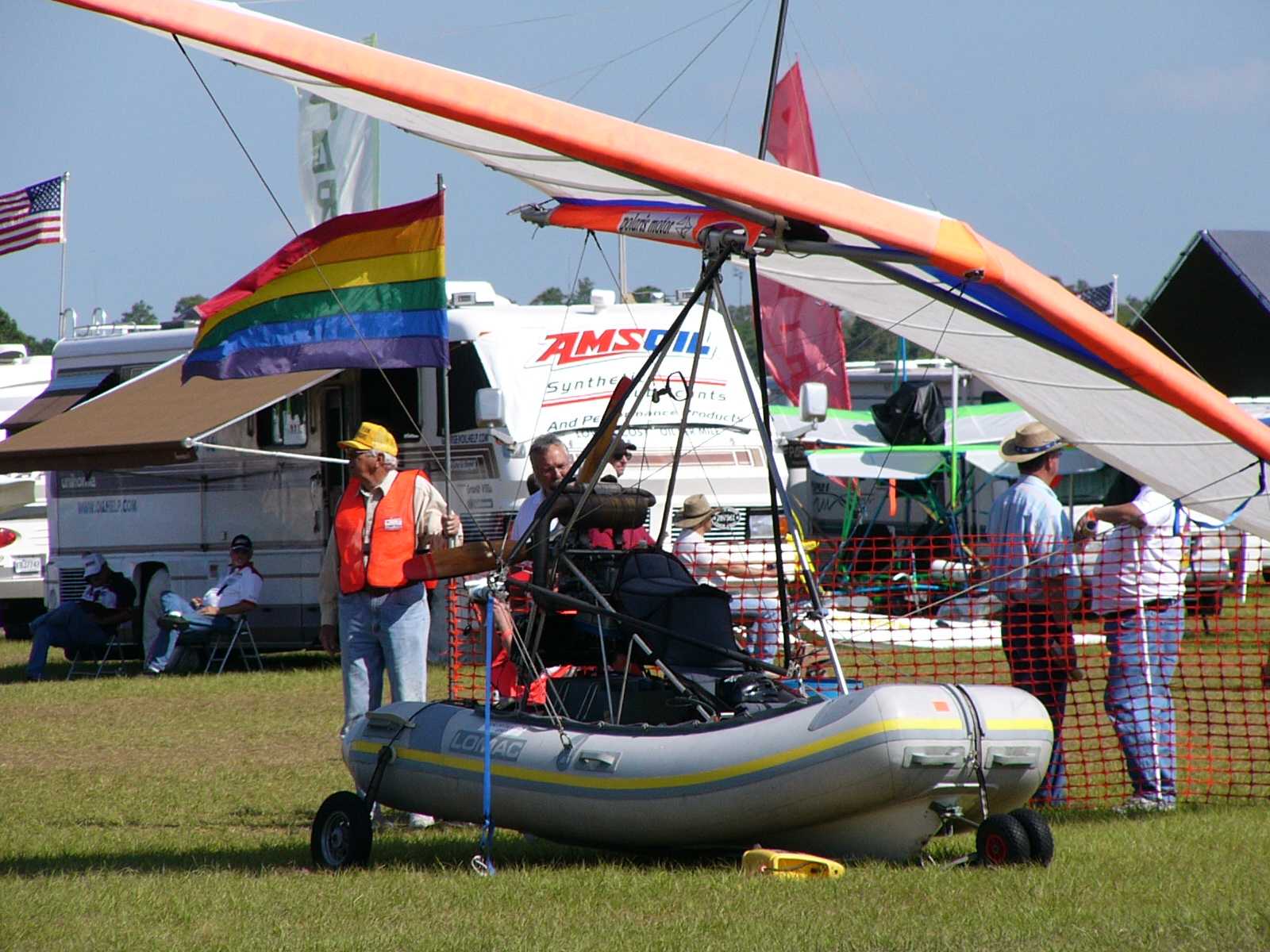 Polaris AM-FIB Flying Inflatable Boat seen at Sun 'n Fun 2004